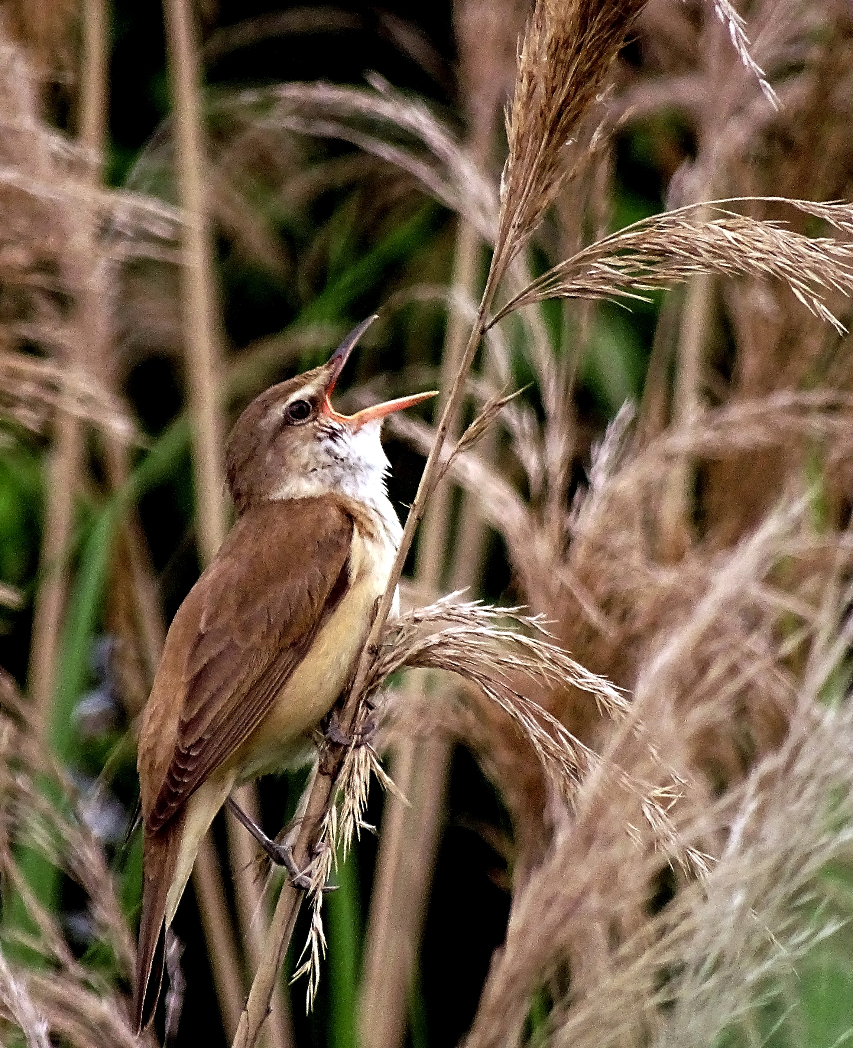 Veliki trstenjak je najkrupniji od pet vrsta trstenjaka koji se u Srbiji najčešće mogu videti. To su neugledne ptice koje obično nastanjuju vlažna stamišta bogata trskom u kojoj se skrivaju i gnezde, pa se zato lakše razlikuju po zvuku nego po izgledu.